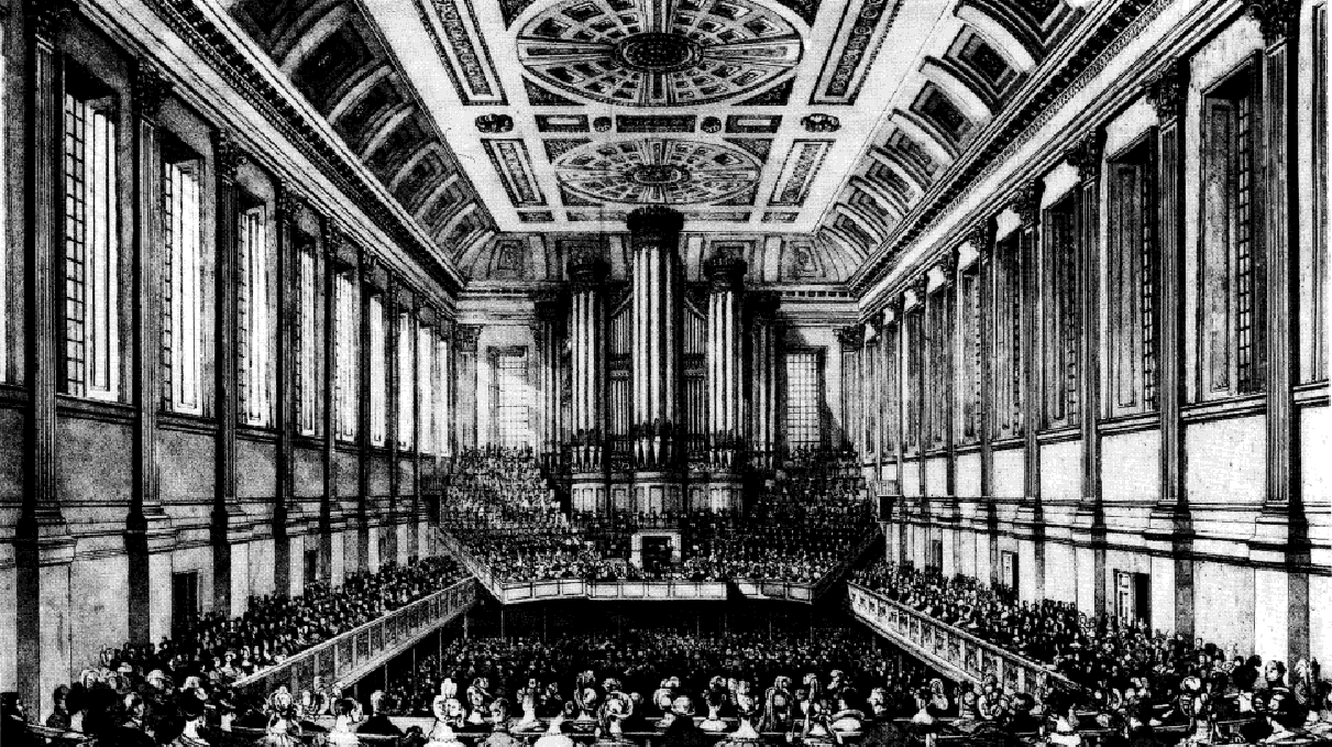 Engraving of Music Festival of 1834 in Birmingham Town Hall showing the Grand Organ constructed that year by William Hill